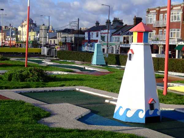 Crazy Golf Eastern Esplanade. Kursaal Dome can be seen in the background.